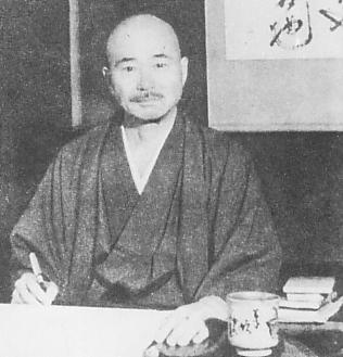 Nissho Inoue